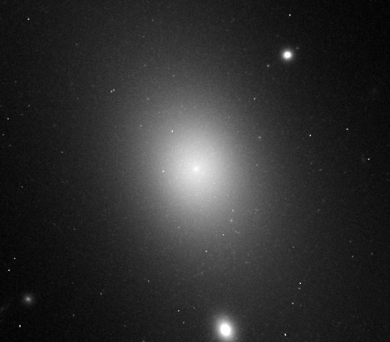 Image of the giant galaxy IC 1101, taken by the Hubble Space Telescope's Wide Field and Planetary Camera 2 at 702 nm.